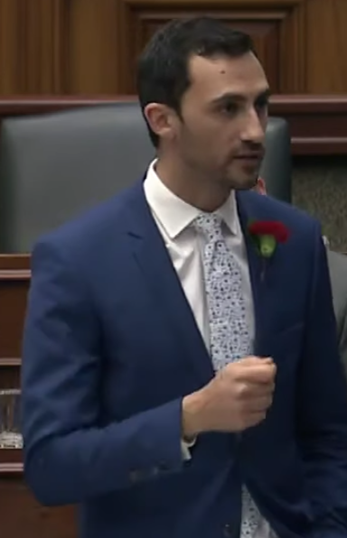 Ontario PC MPP Stephen Lecce speaking during Question Period on May 30, 2019